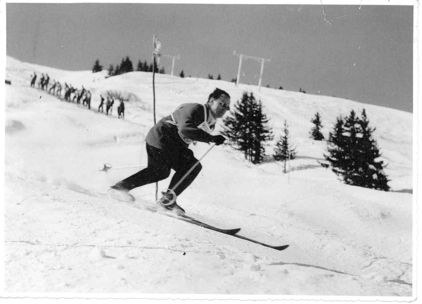 photo of George Jellicoe, by Philippa, Countess Jellicoe, c1960.Rodolph 01:04, 19 April 2007 (UTC)